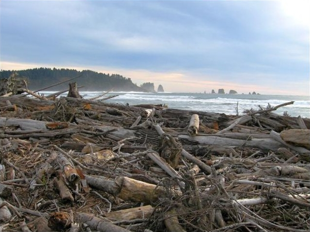 Driftwood at First Beach, La Push, Washington